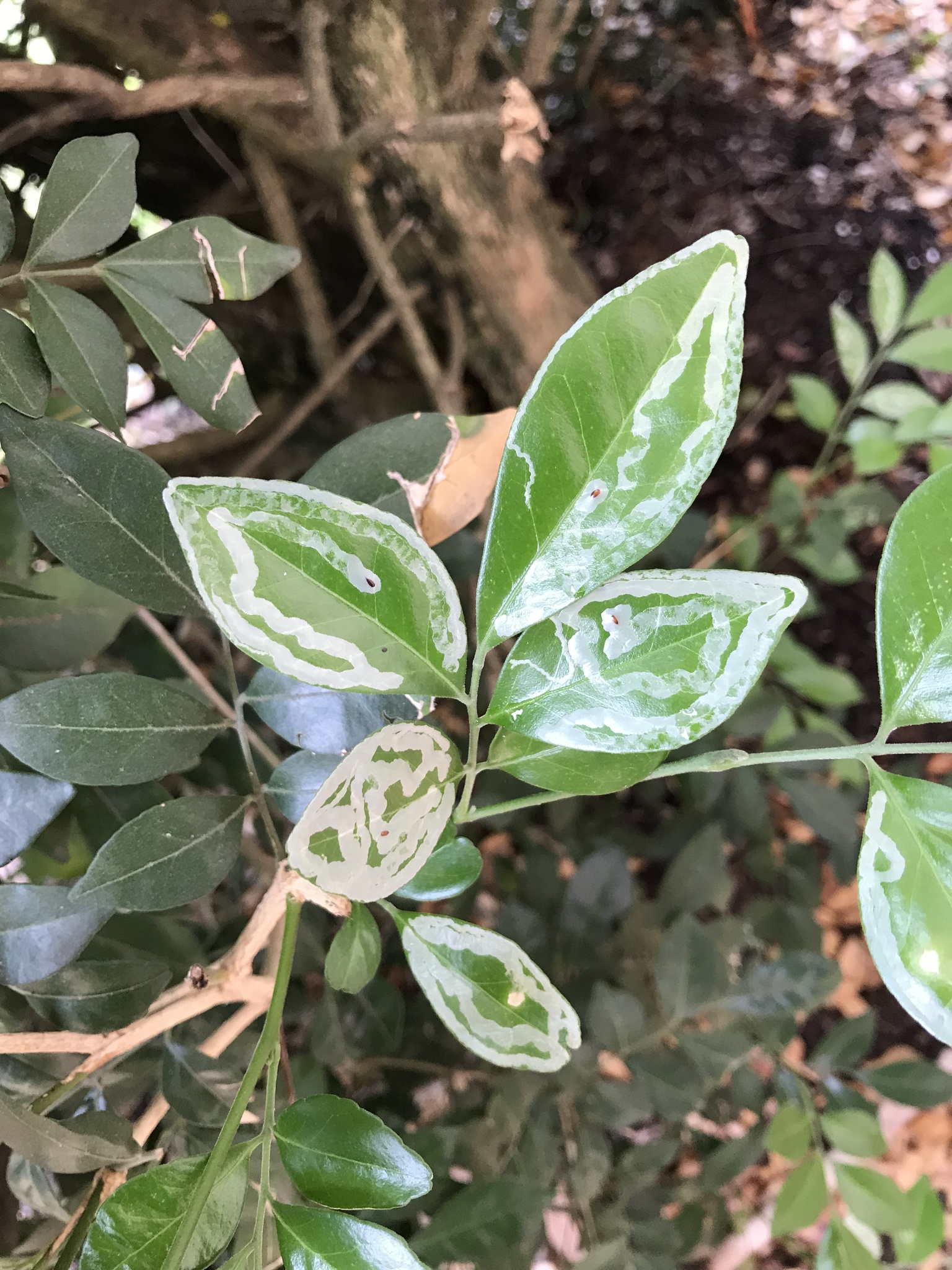 Tropicomyia polyphyta. Species of Leaf Miner insect. Zoom in image to see insect puparia at ends of epidermal mines on plant leaves.